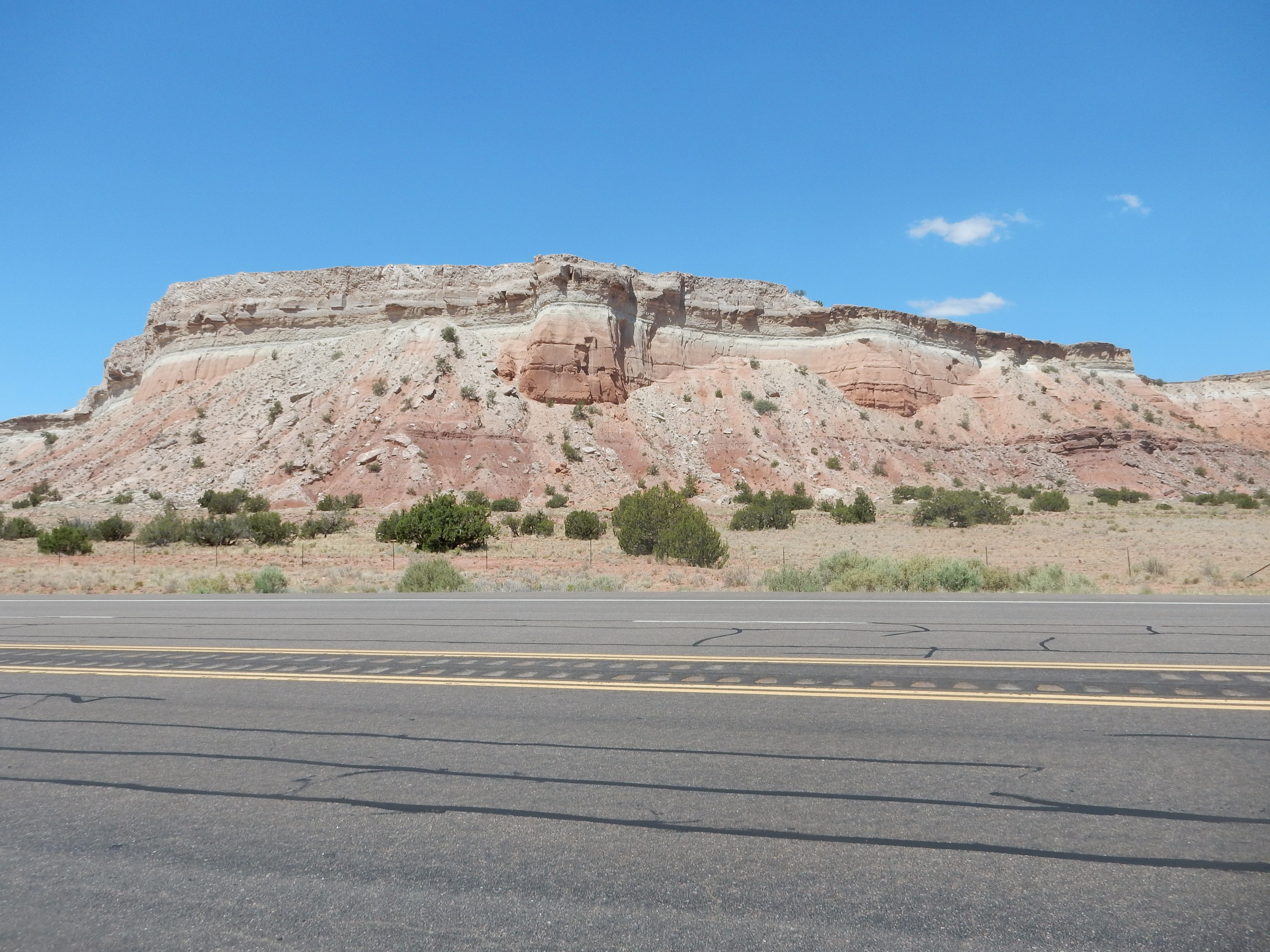 This photograph shows a small hill capped with light gypsum beds of the Toldilto Formation, west of Red Mesa, Nacimiento Mountains, New Mexico, United States